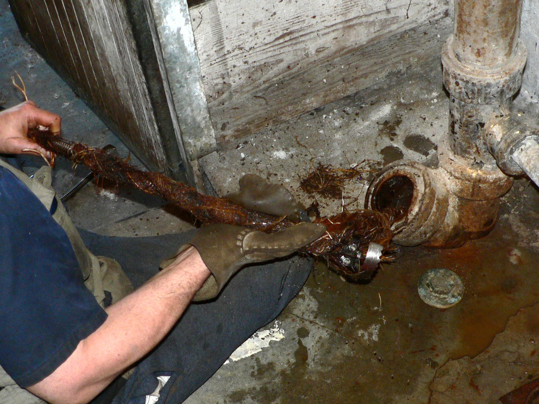 Motorized heavy-duty plumber's snake; cleaning a residential side sewer line in Seattle, Washington; removing plant roots from an obstructed line